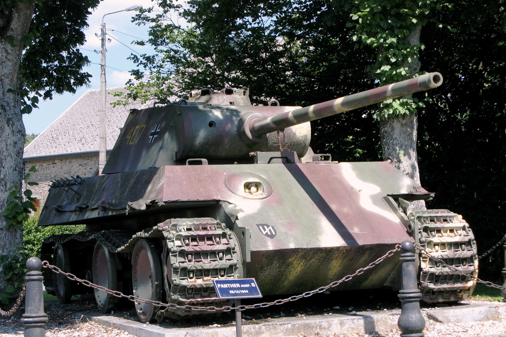 Manhay, Belgium: German "Panther tank" — Battle of the Bulge vestige (1944) in the village Grandmenil.